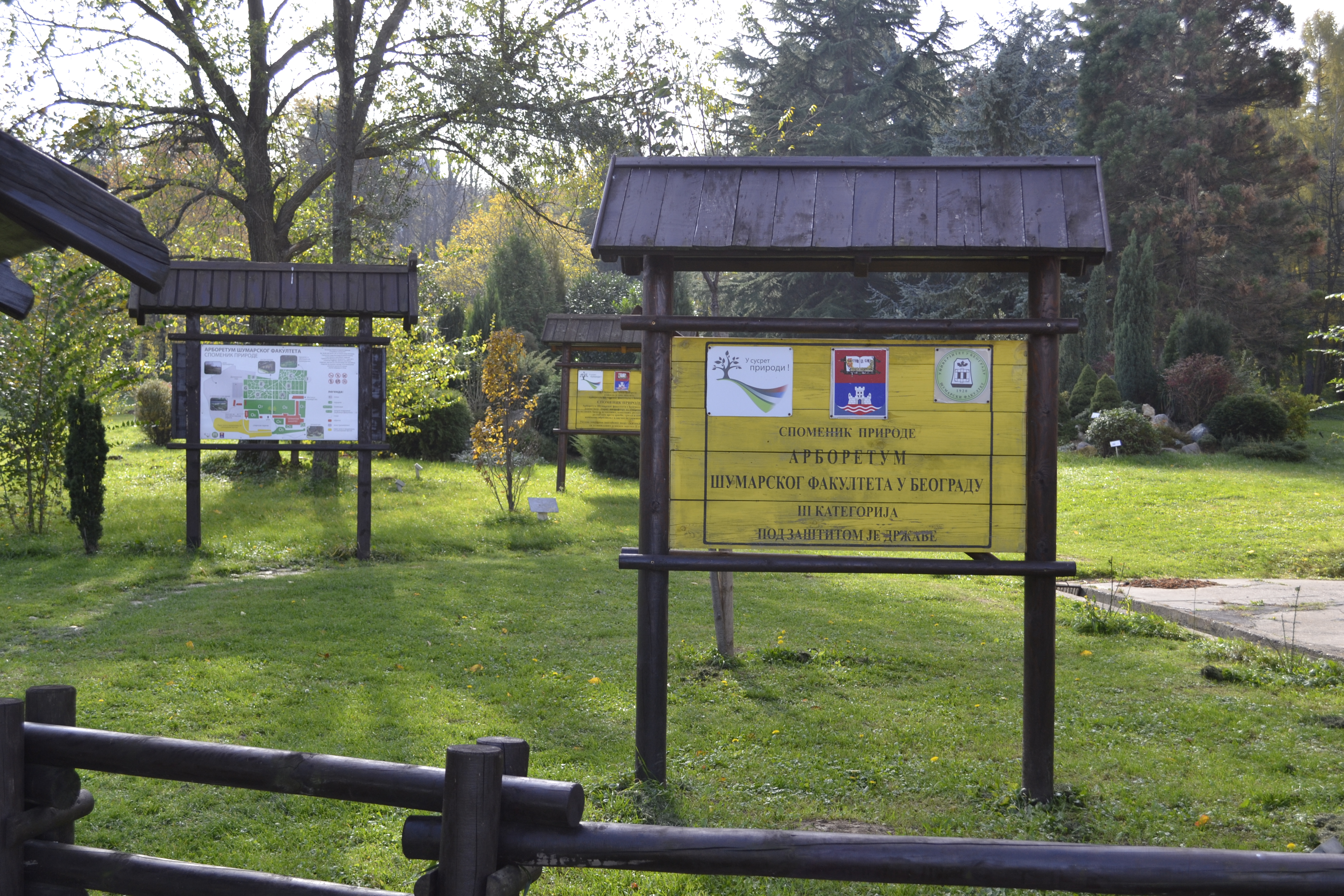 Arboretum of Faculty of Forestry in Belgrade.